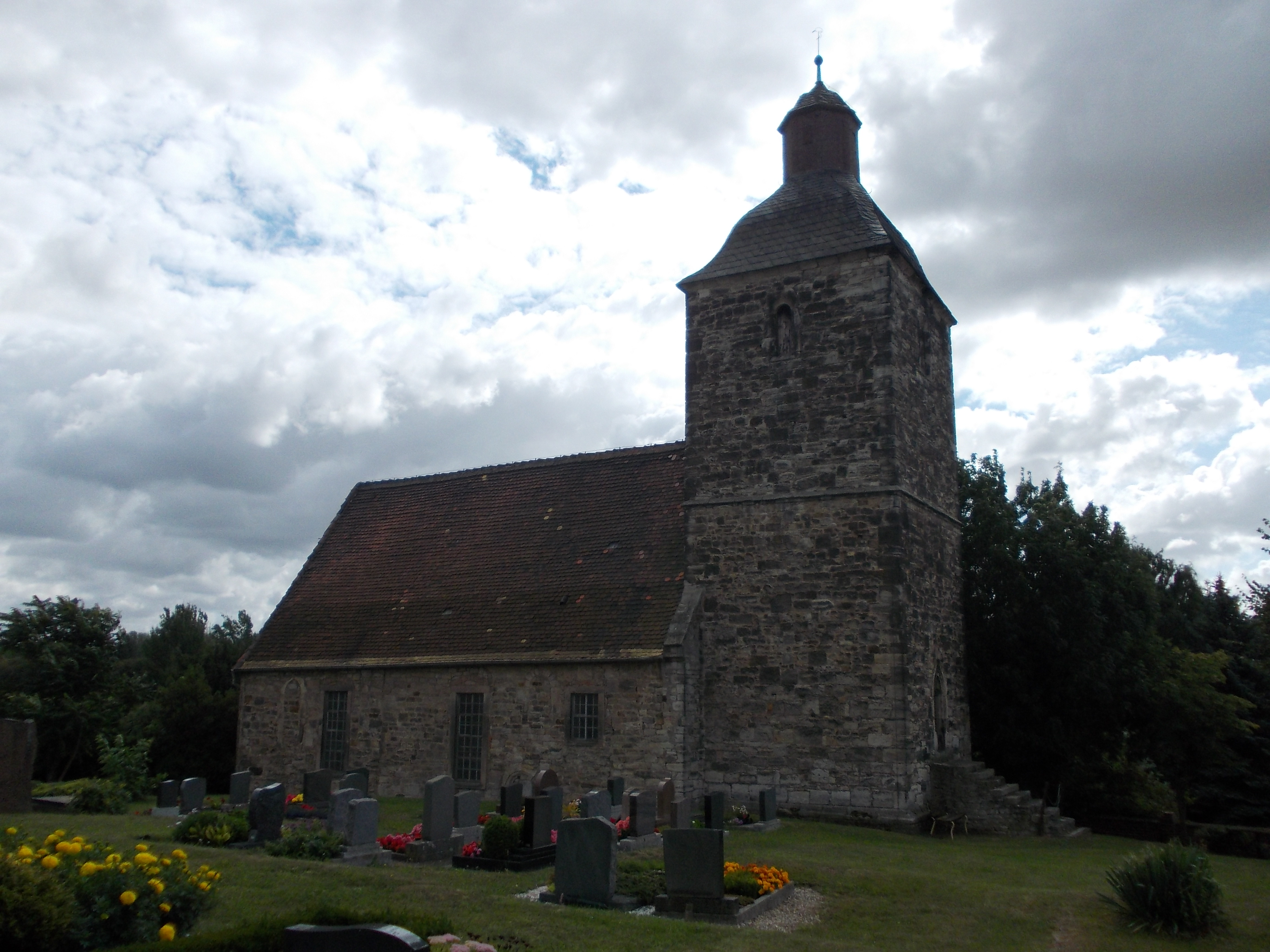 St. Cyriacus Church in Obergreisslau in the Langendorf subdivision of the town of Weissenfels (district: Burgenlandkreis, Saxony-Anhalt)